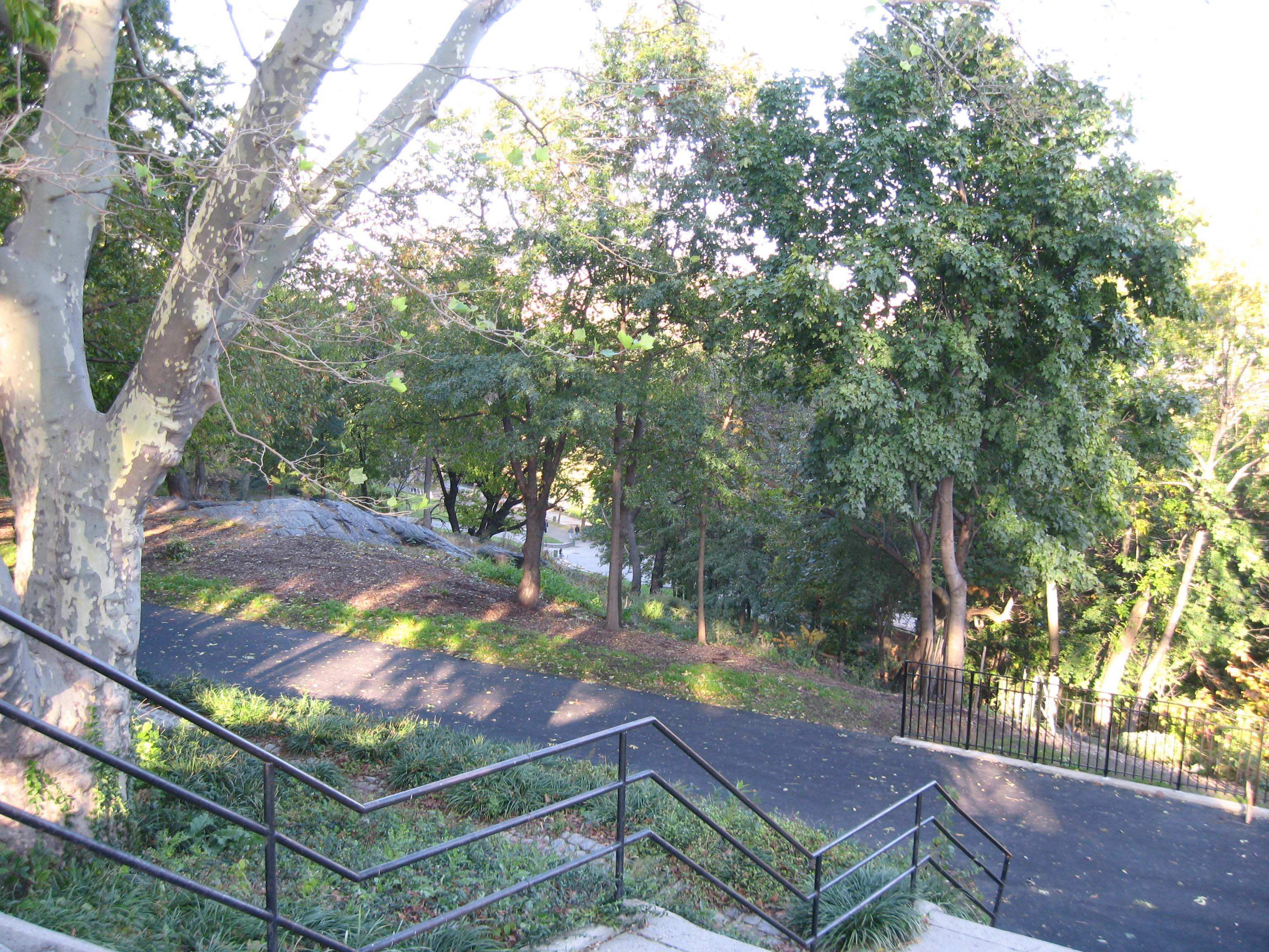 Looking east and down into St. Nicholas Park on a sunny late afternoon.